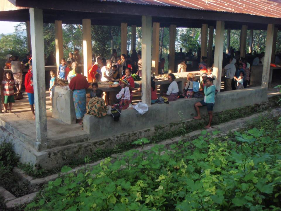 Soibada, East Timor